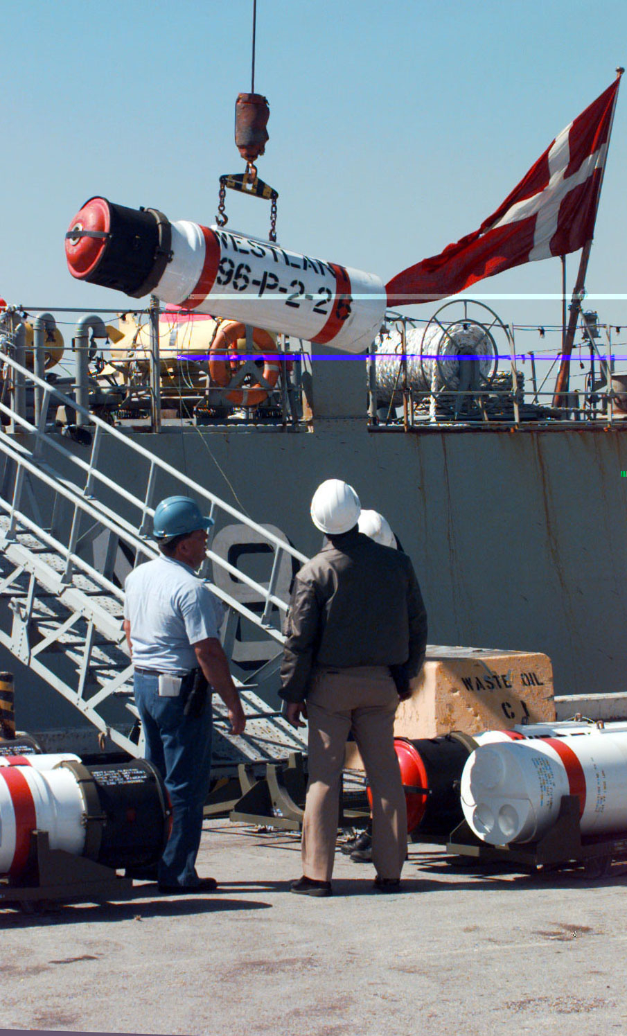 U.S. and Danish sailors watch as a crane lifts Mark 52 mines to the deck of the HDMS Falster (N 80) at Naval Station Mayport, Fla., on March 21, 1996. The Danish ship is joining ships, submarines and aircraft from seven NATO nations to participate in Exercise Unified Spirit '96. The combined exercise is designed to improve the readiness and effectiveness of NATO forces in the areas of command communication, embargo enforcement, freedom of navigation and protection and coordination with mine warfare forces.